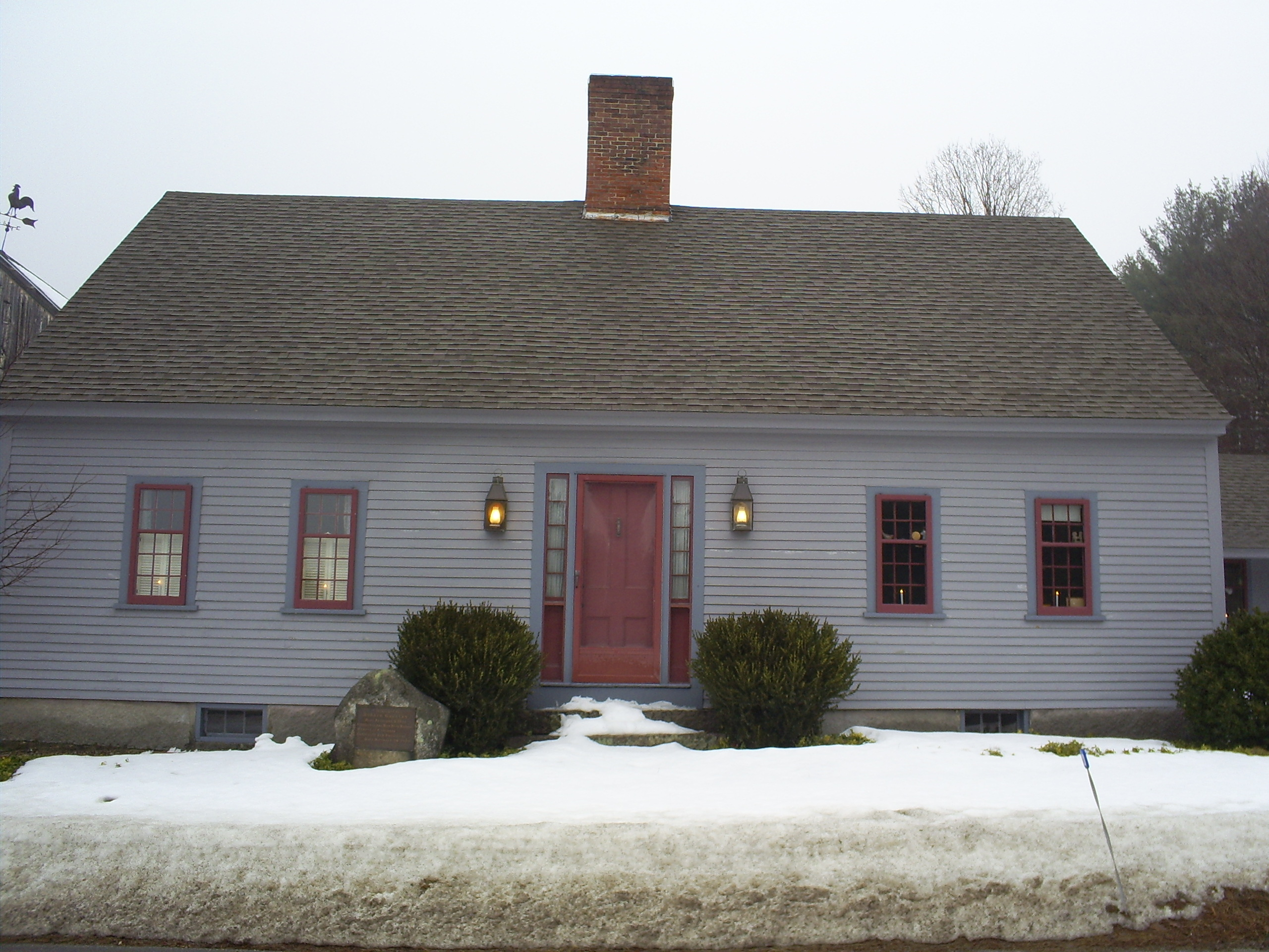 Photo by Craig Michaud. This is the birthplace of Horace Greeley in Amherst, NH